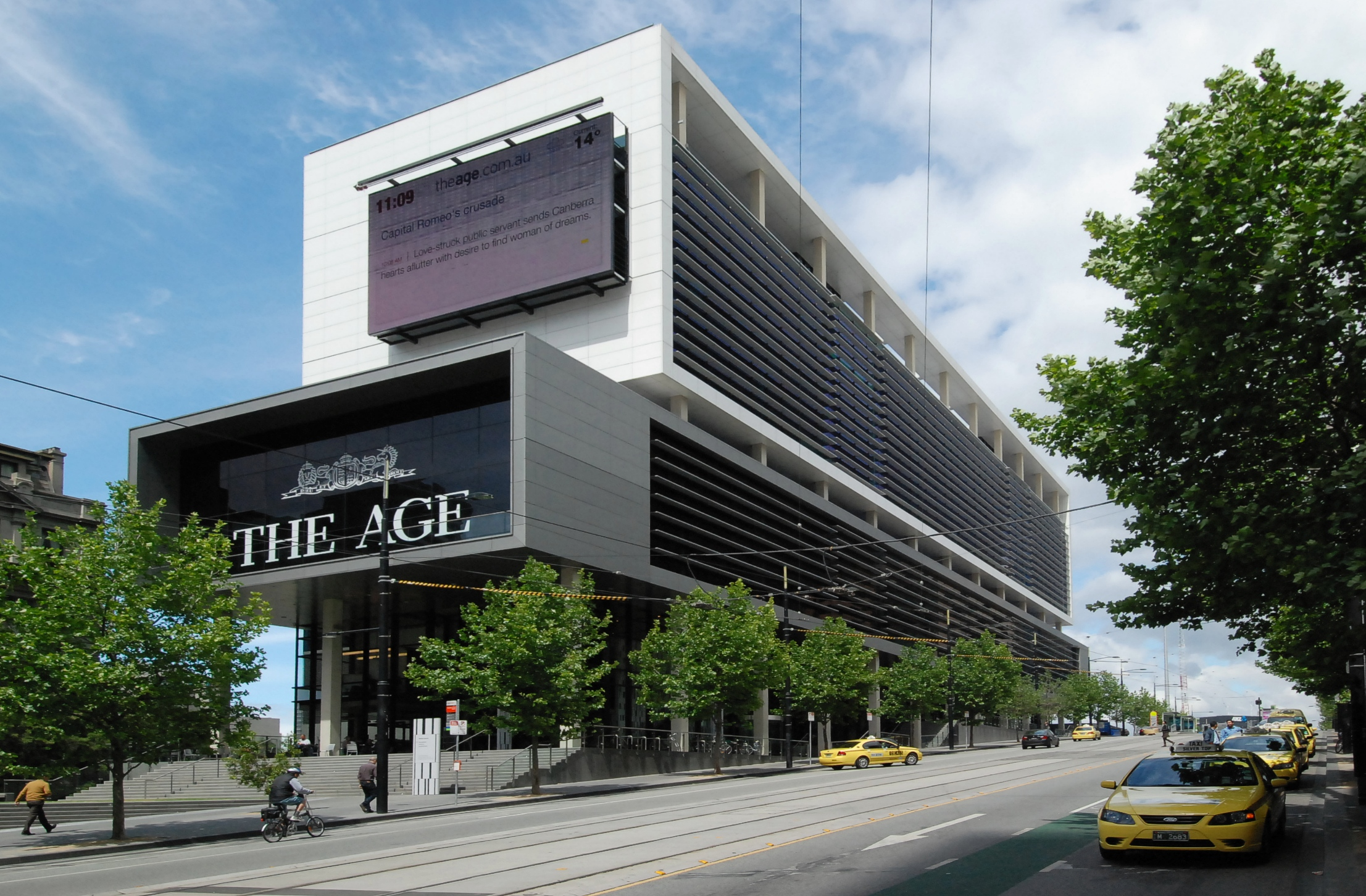 The Age Headquarters, 655 Collins St, Docklands, Melbourne, Australia. Designed by Bates Smart architects (2009).